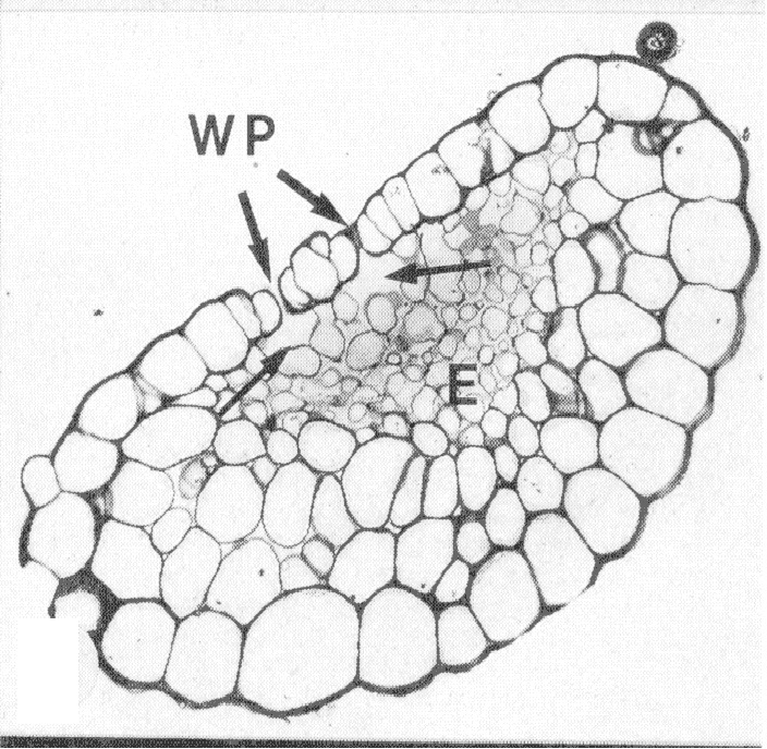 Cross section of the margin tip from a young strawberry leaf. Section shows the hydathode with water pores (WP) on the adaxial surface and the epithem (E) below.